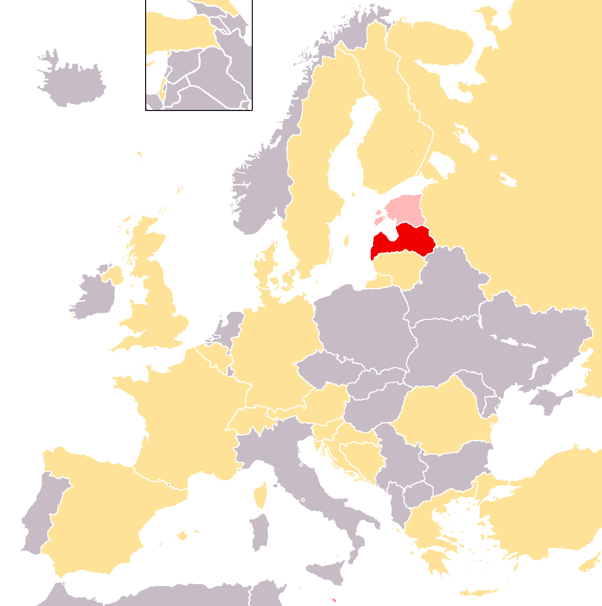 Map of Eurovision 2002